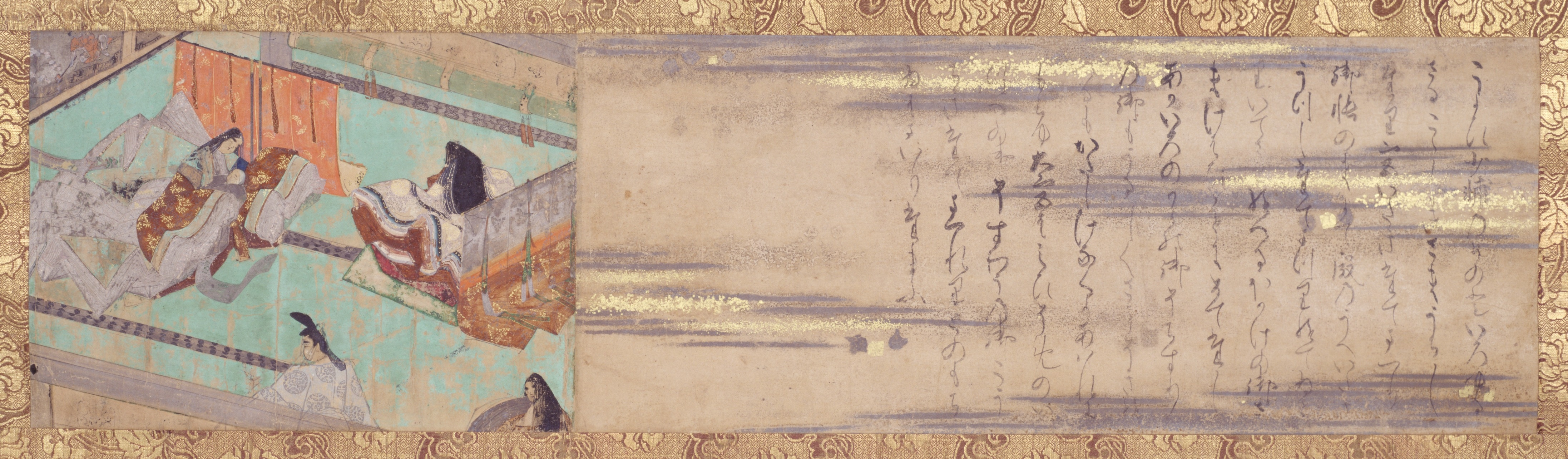 Depicted is a scene from the 50th day celebration of the birth of Prince Atsuhira-shinnō (later Emperor Go-Ichijō). Fujiwara no Michinaga, the prince's grandfather is depicted at the bottom offering mochi. The servant at the bottom right might be Murasaki Shikibu.